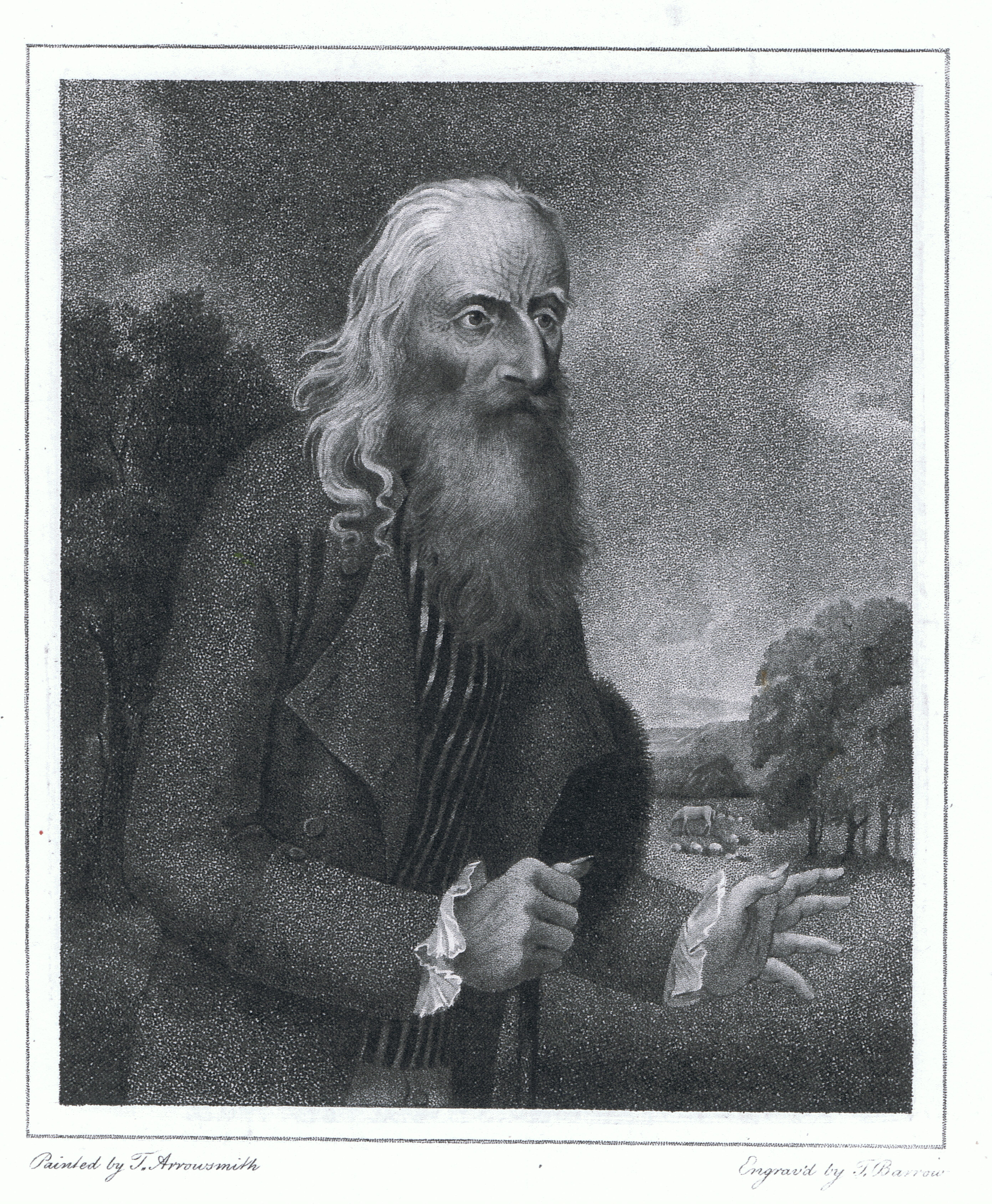 The late Right Honorable Matthew Robinson, Baron Rokeby of Armagh, painted by Thomas Arrowsmith, engraved by T. Barrow. Hastings, 1801.